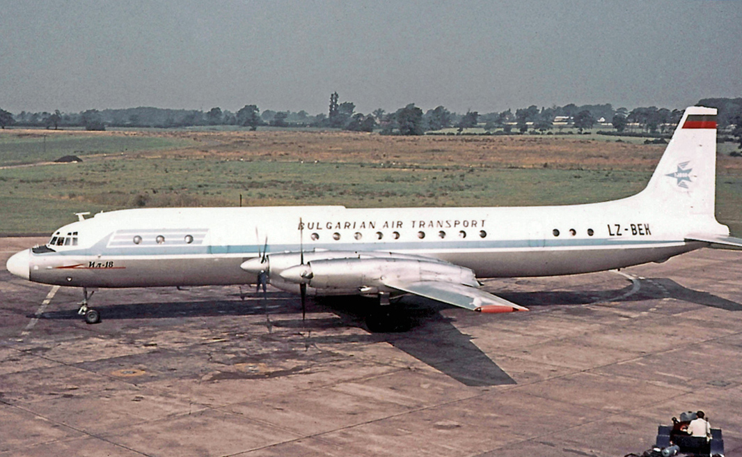 Ilyushin Il-18V LZ-BEK of Bulgarian Air Transport at Manchester (Ringway) Airport, operating a service from Varna.